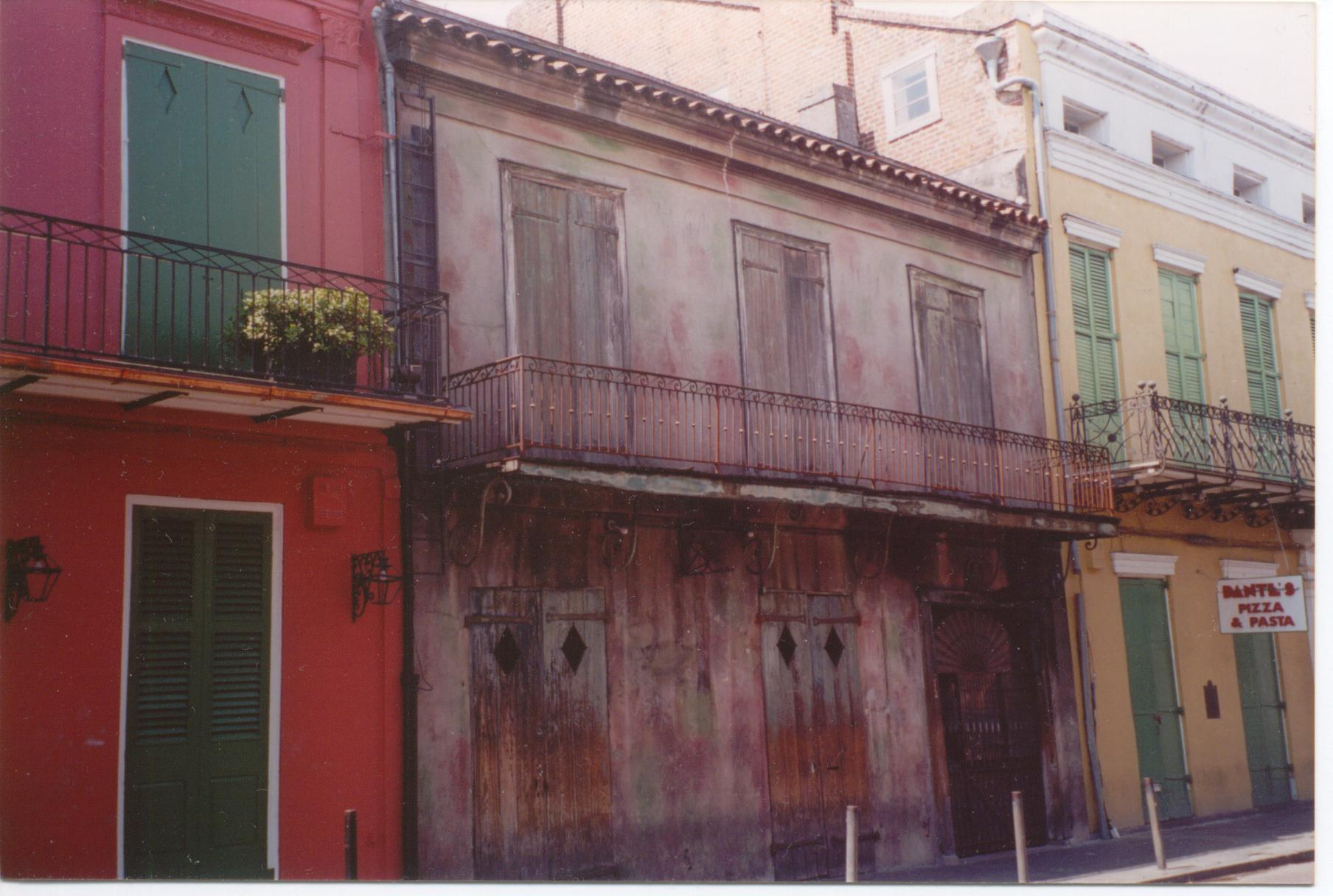 Preservation Hall in New Orleans / Preservation Hall in New Orleans